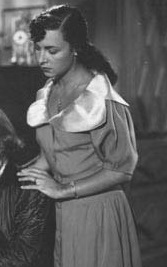 Gloria Castilla- actress